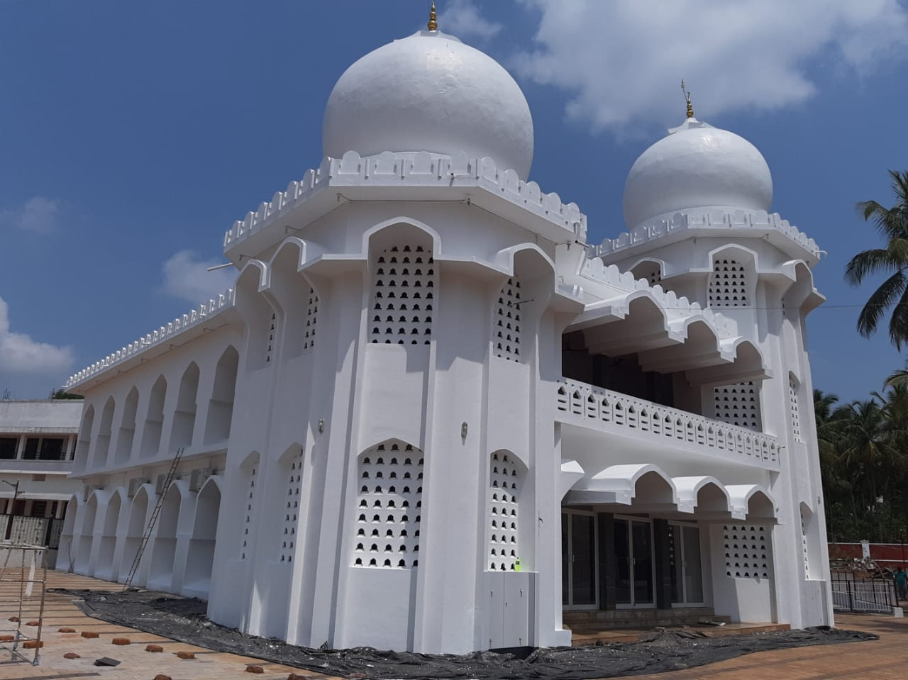 Malharul Awakif Masjid Front view